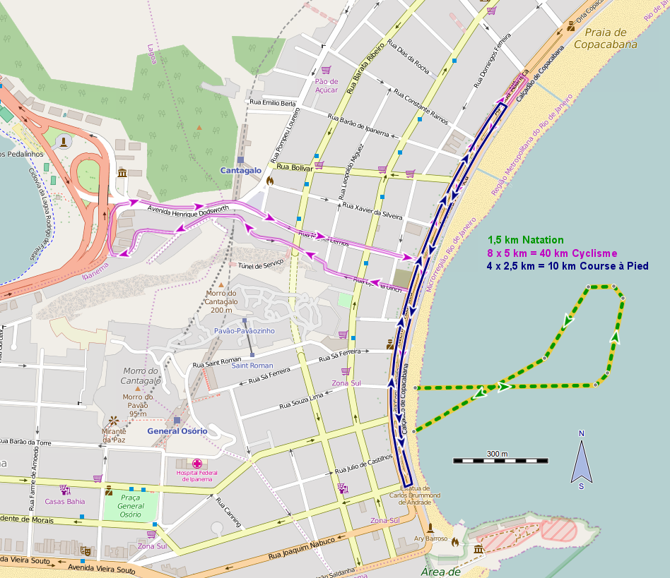 Course Triathlon Olympic Games Rio 2016